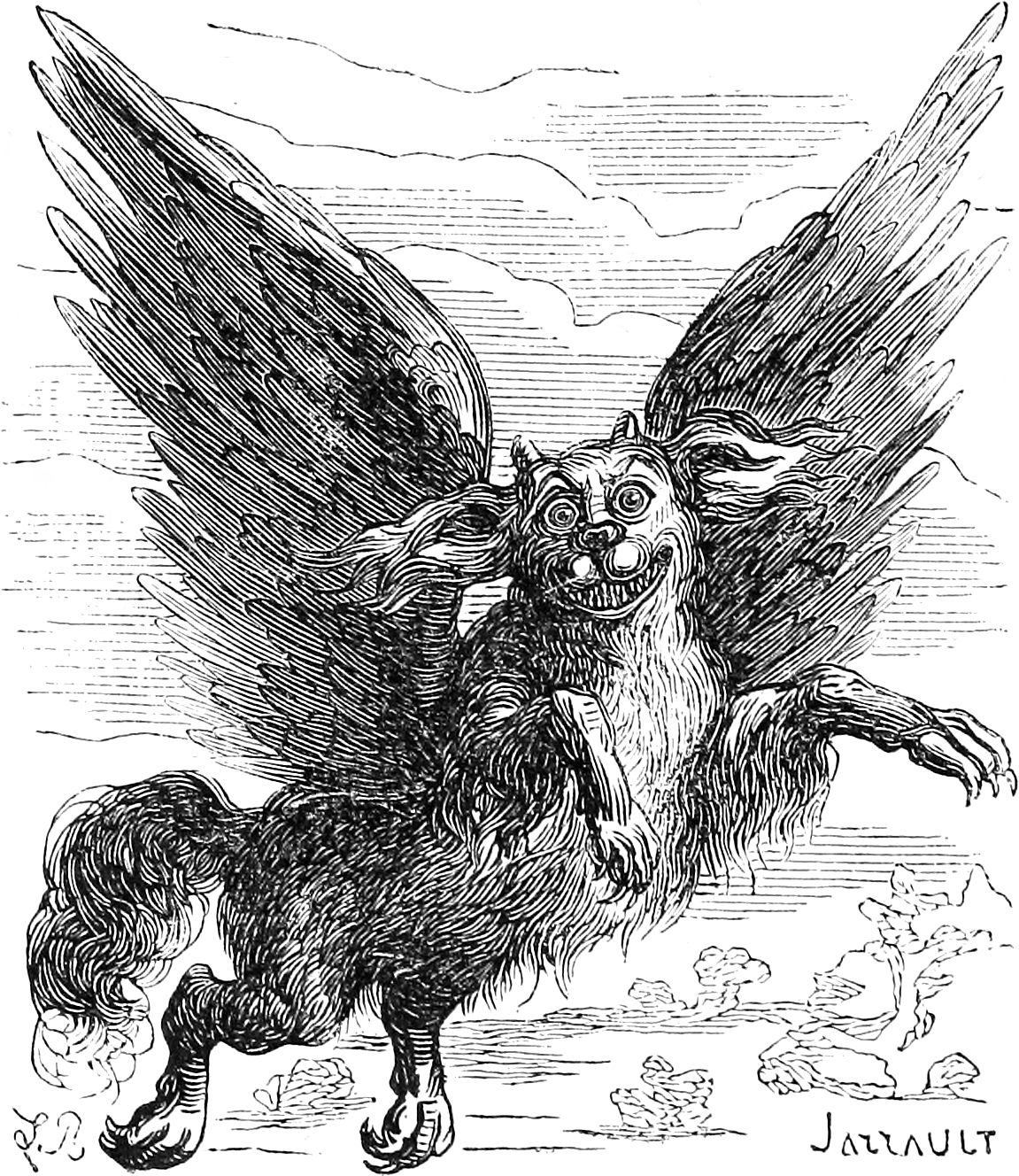 Caacrinolaas, an illustration from the "Dictionnaire Infernal" by Jacques Collin de Plancy